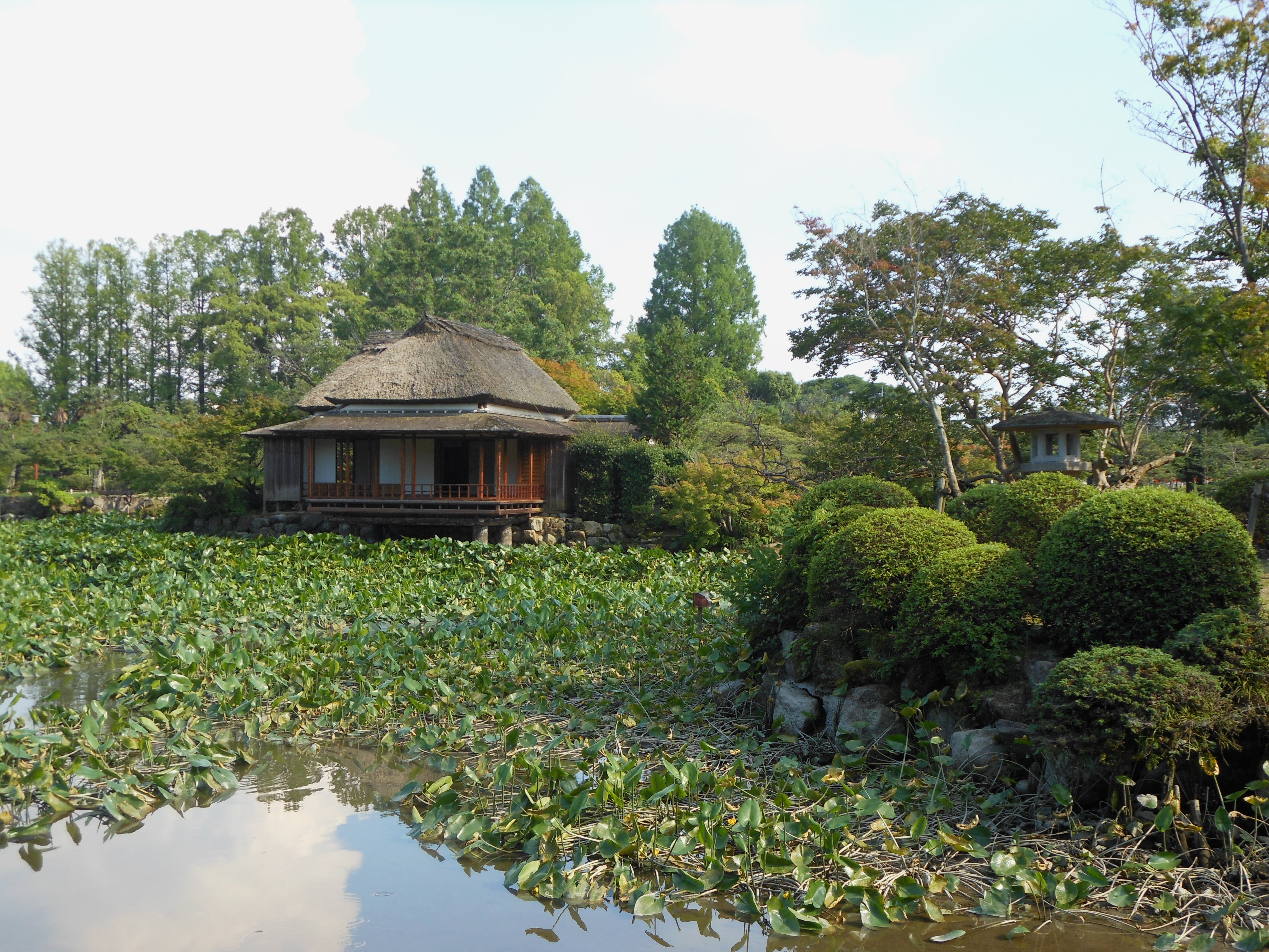 Kakurintei Tea House, a restored Japanese tea house of Lord Nabeshima Naomasa, in Kōno Park.